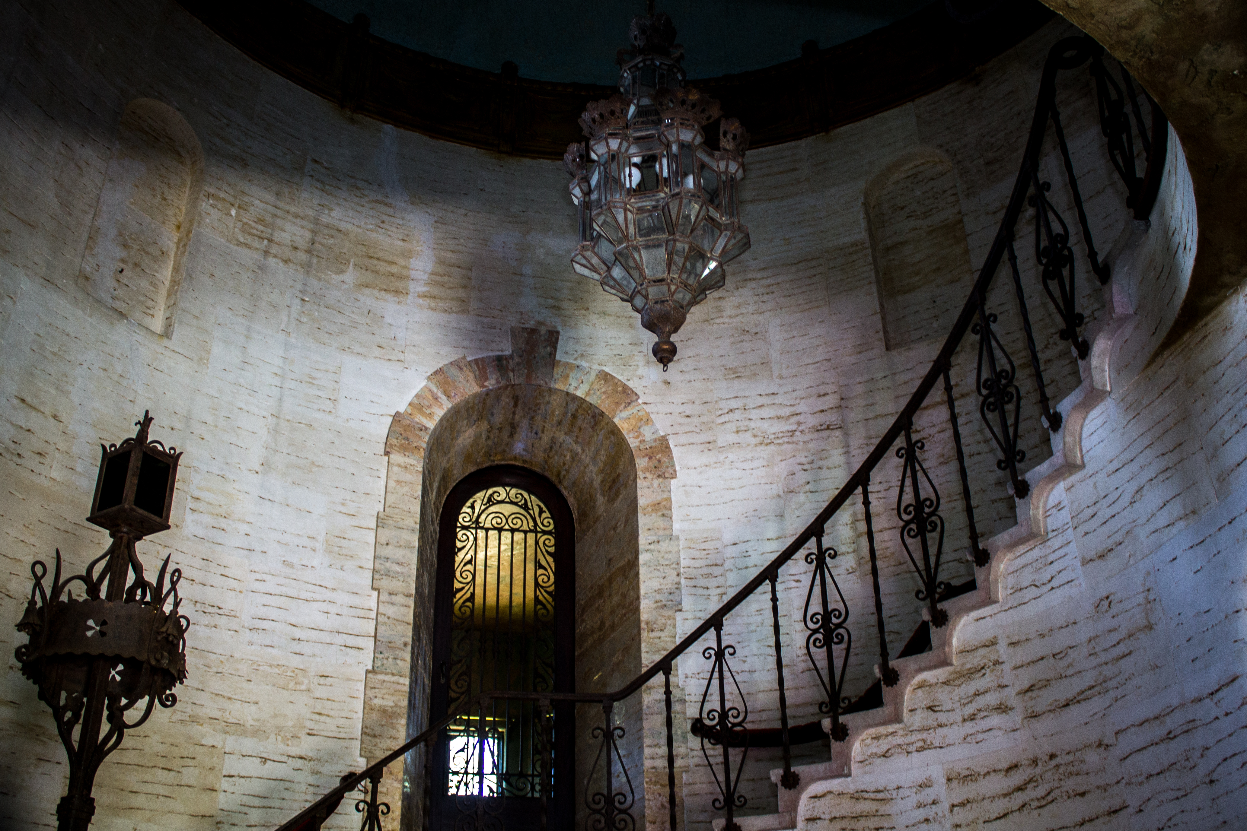 Marble foyer of the Howey House.